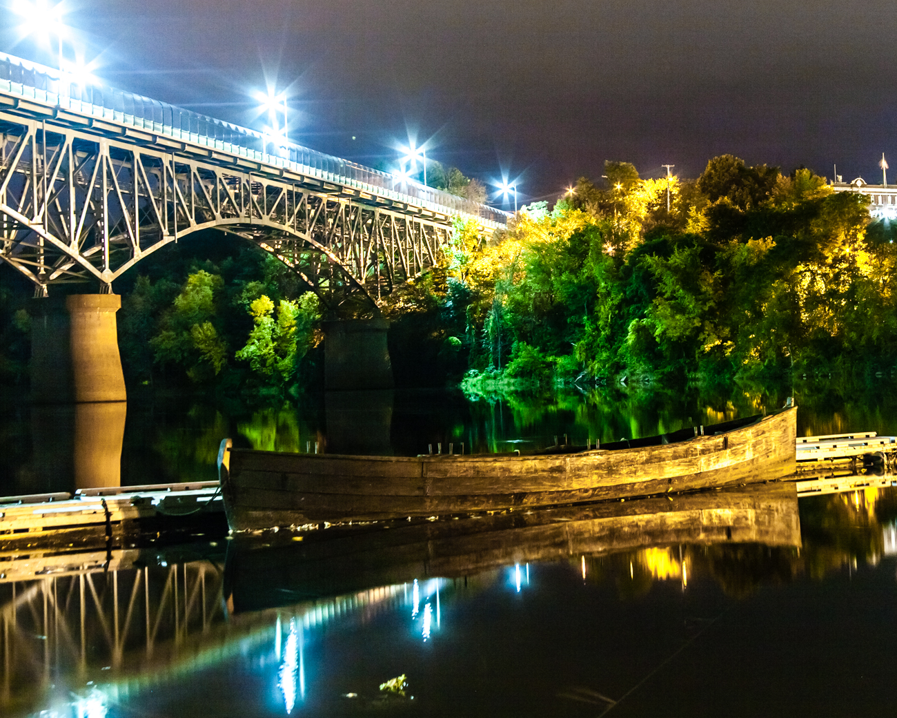 Last night , inspired by a Portland Camera Club session on night photography, I went to the boat launch area in Augusta, Maine to take some photos across the Kennebec River. In this shot is the Memorial Bridge and also visible are some trees that are beginning to change to their fall colors.